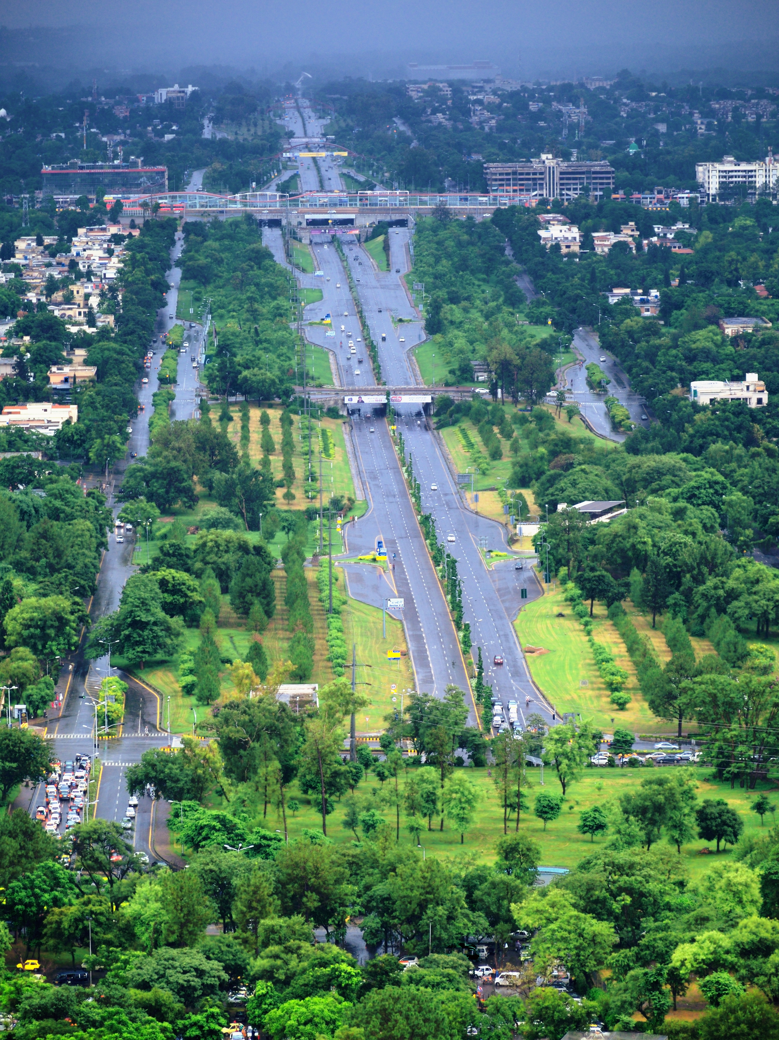 Seventh Avenue from Daman-e-koh view point